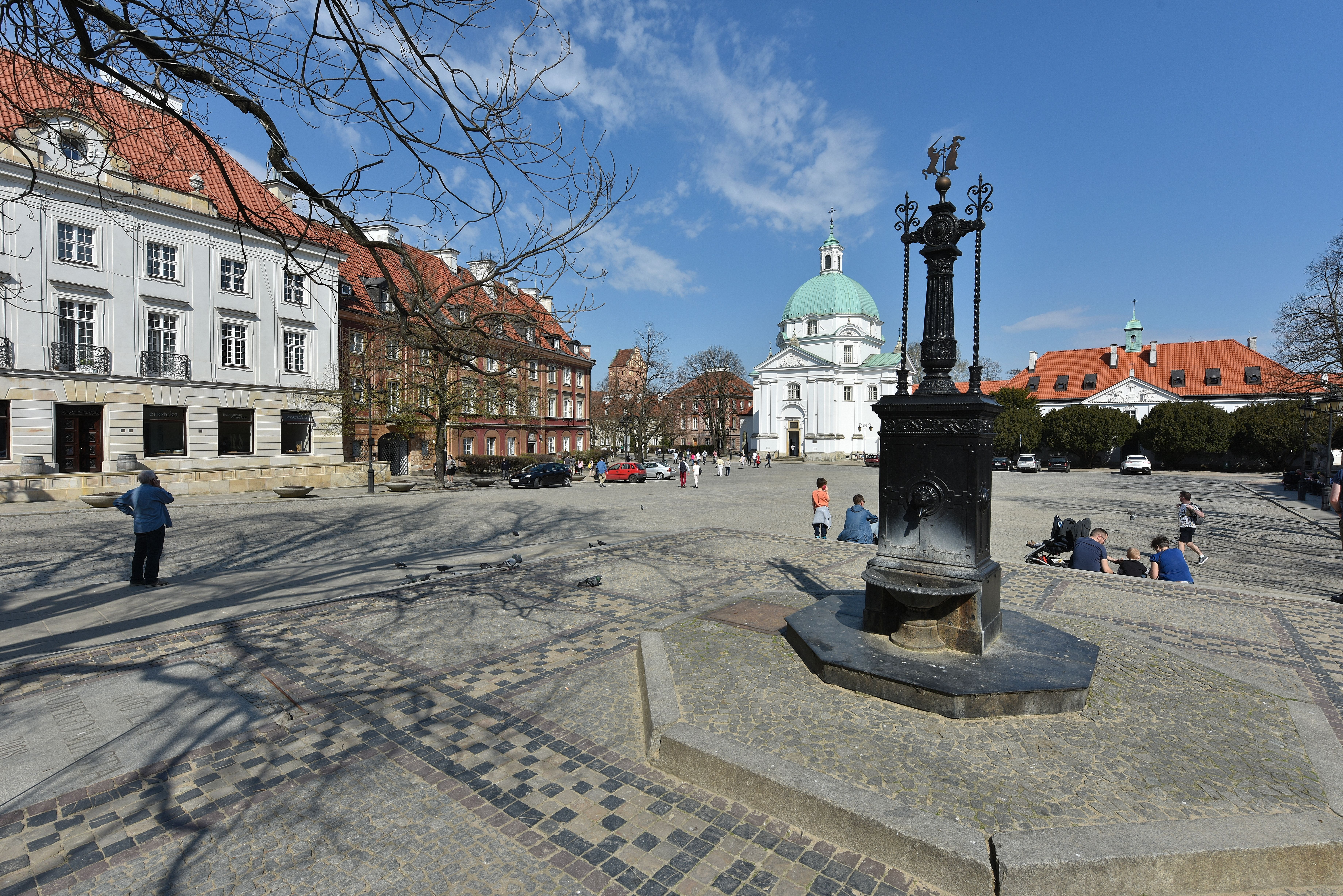 New Town Market Square in Warsaw